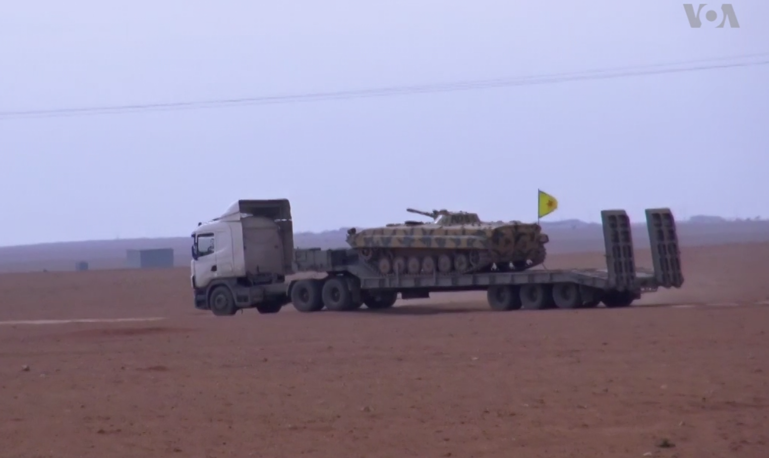 A BMP of the YPG, loaded on a truck, during the Raqqa offensive (2016–17).